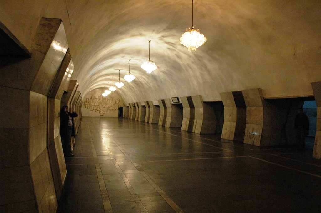 The Yerevan metro station Eritasardakan/Еритасардакан